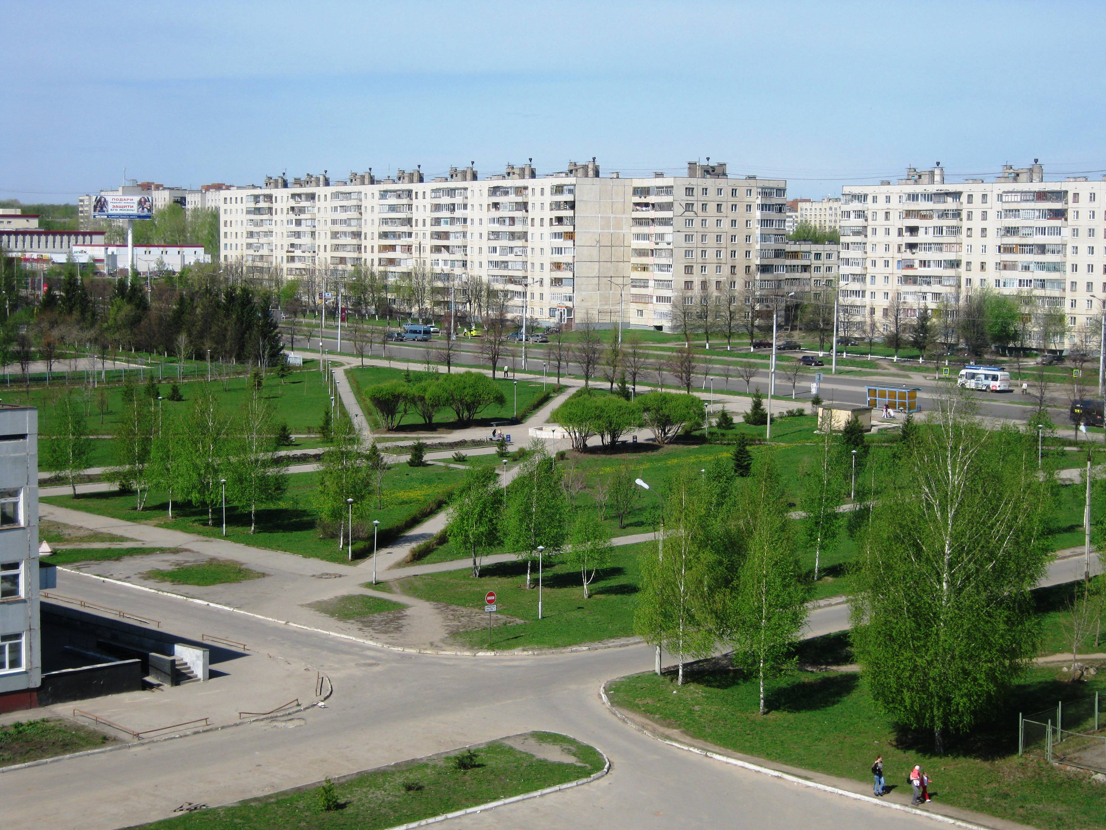 Сквер у больничного комплекса (Чебоксары)